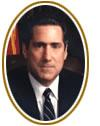 Secretary of Energy John Herrington taken from